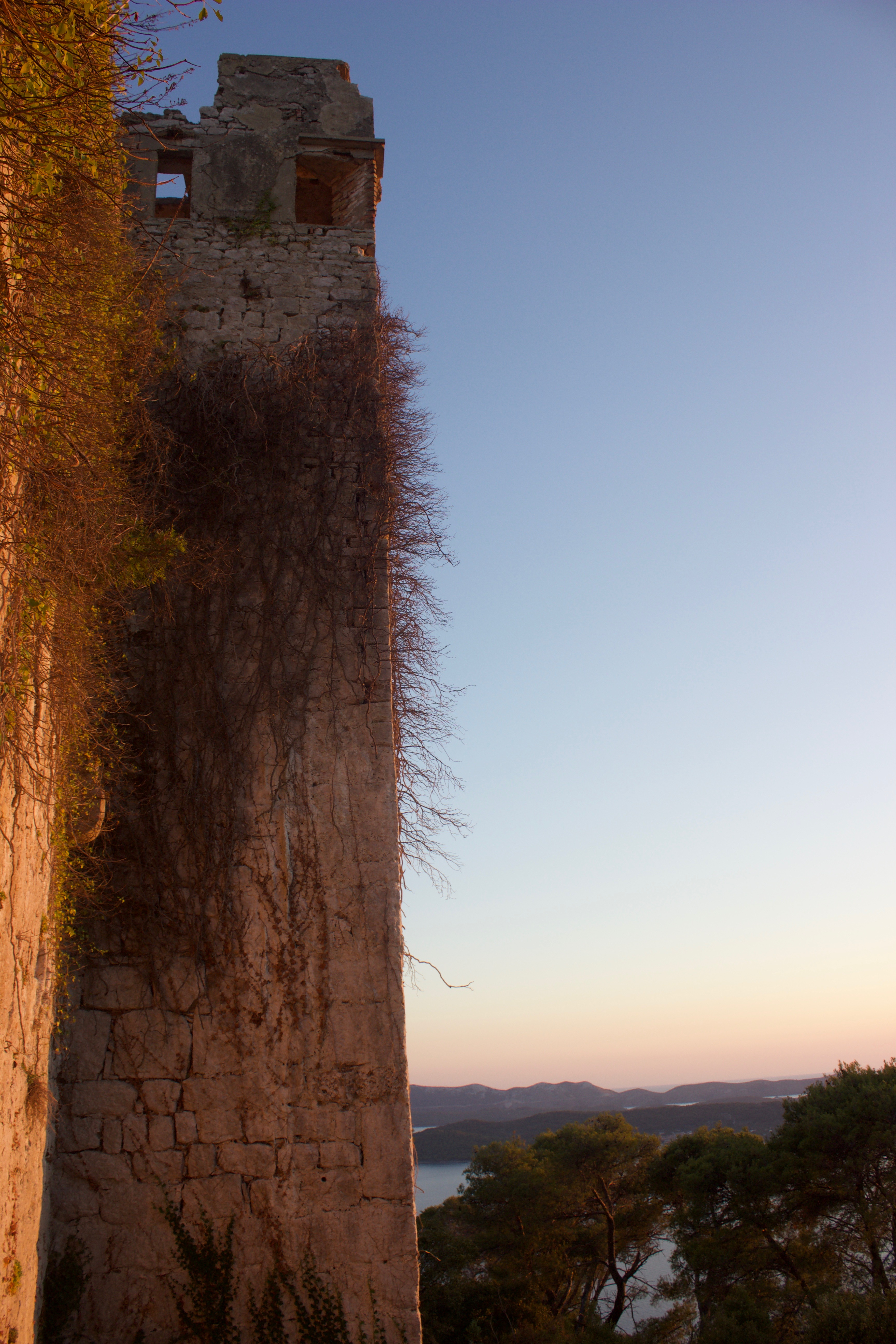 Fort St. Michael